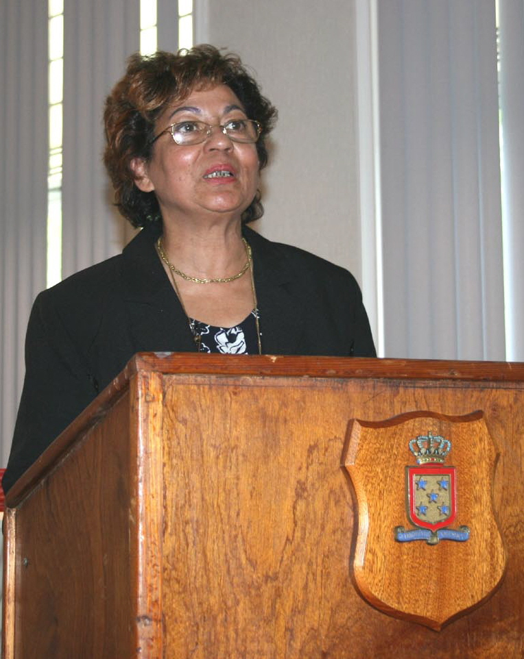 Myra Römer, Dutch-Antillian writer, in the Antillenhuis (House of the Antilles) in The Hague, 24 April 2008, on the occasion of a public lecture given by Prof. Michiel van Kempen on her newest novel, Het geheim van Gracia.